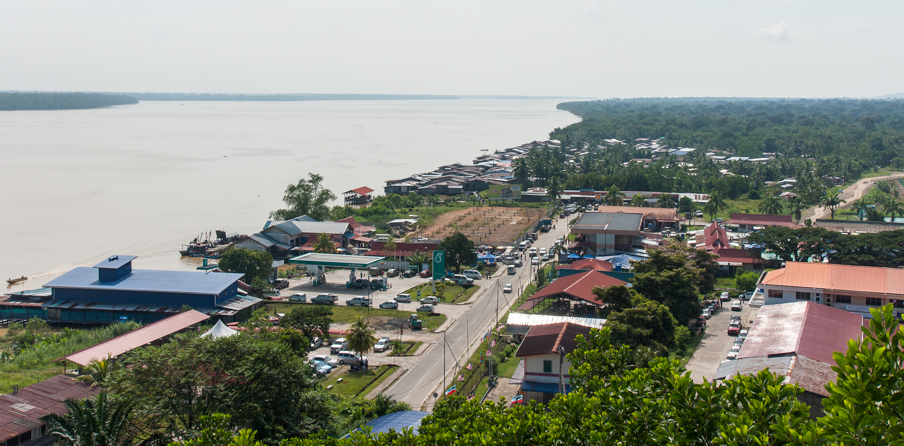 View of the town from the Police Headquarters hill. The water is part of the Sungai Labuk Estuary